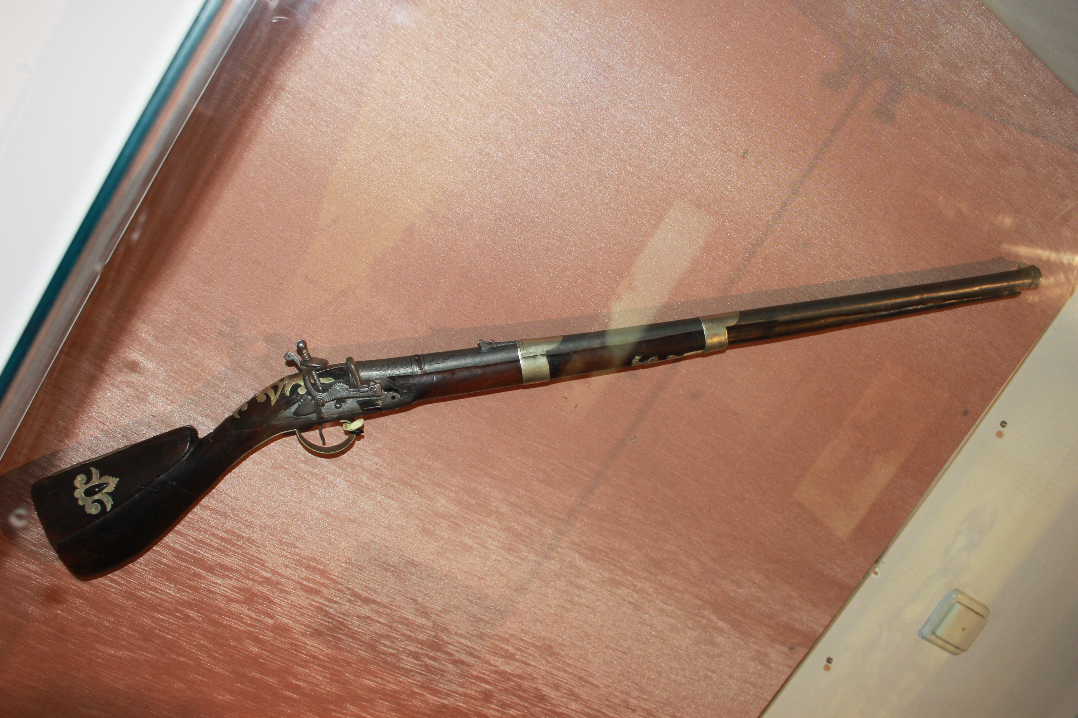 Rifle used by Tanasko Rajić commander of Serbian artilery during battle of Ljubić